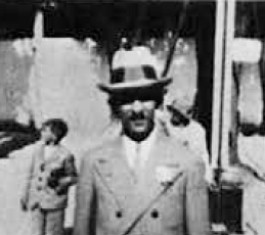 Anton Podbevšek